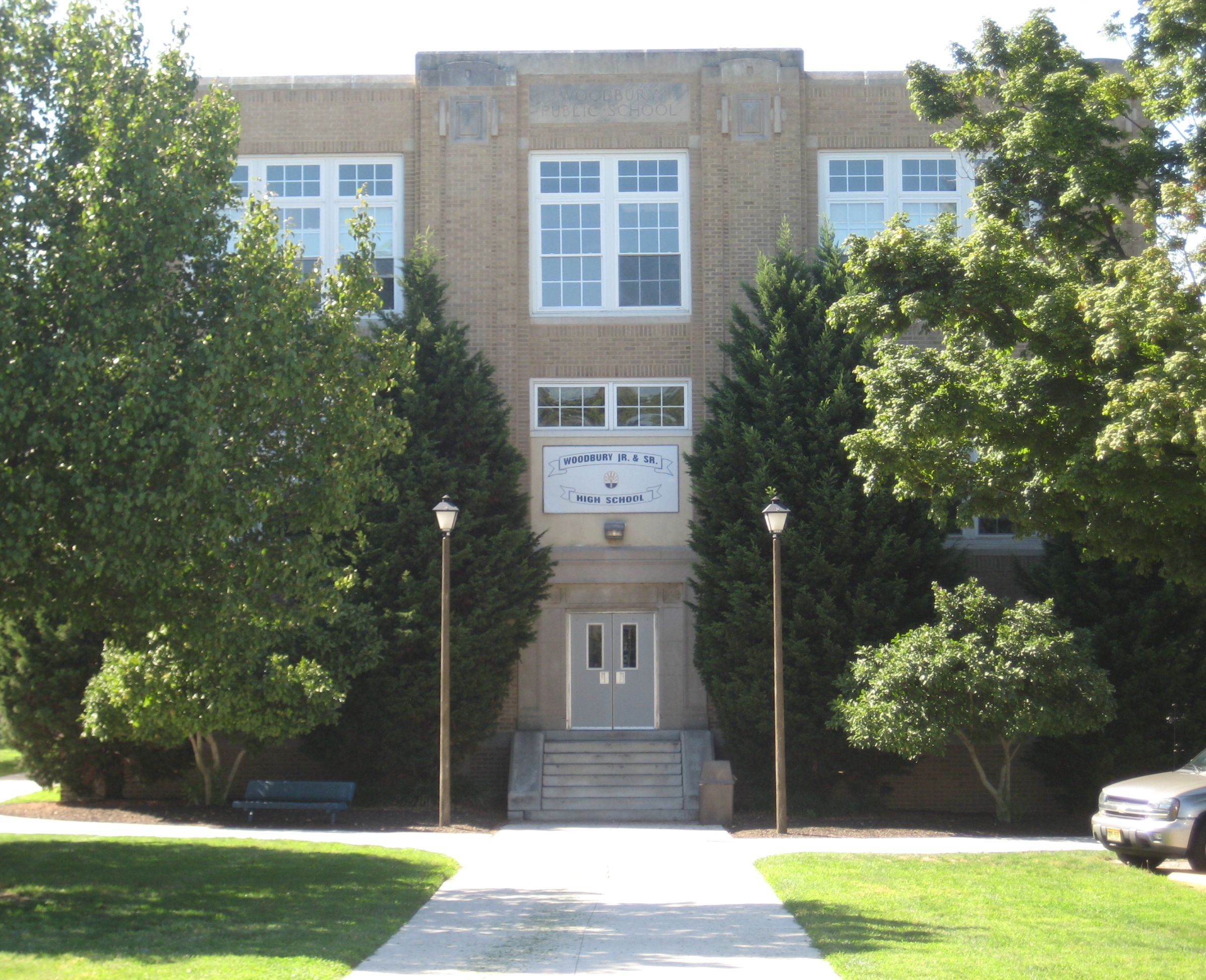 The main entrance of Woodbury High School in Woodbury, New Jersey, USA.